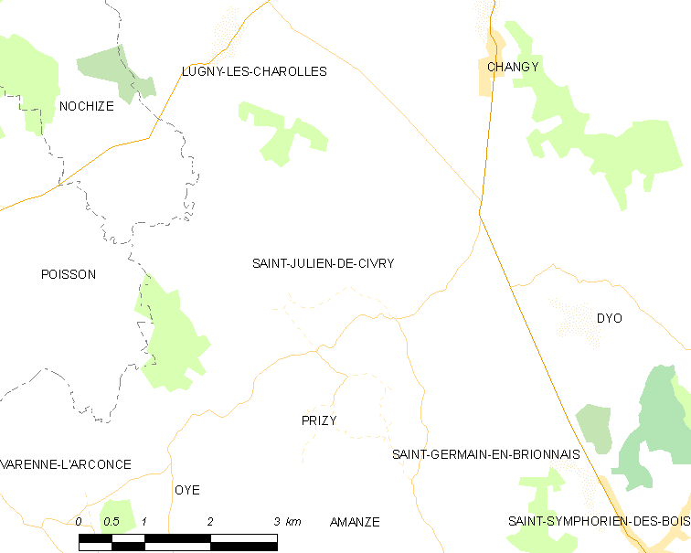 Map of French municipality